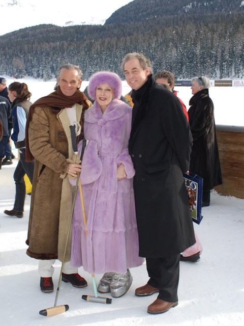 Polo crowd in St. Moritz